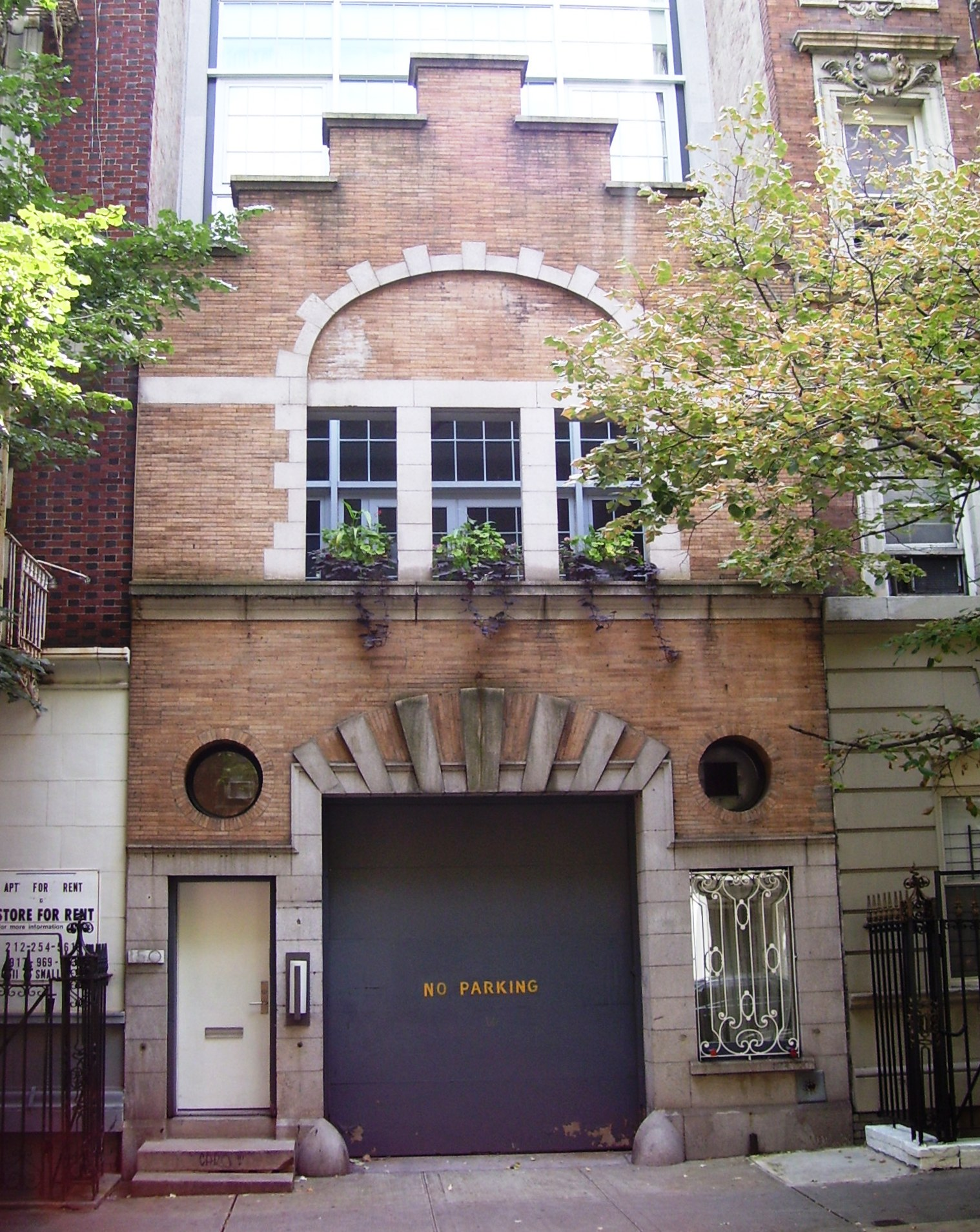 A gabled carriage house, built in 1895 and designed by Sidney V. Stratton) with a set-back steel-and-glass addition (c.2000), located at 150 East 22nd Street, between Lexington and Third Avenues, in the Gramercy Park neighborhood of Manhattan, New York City.